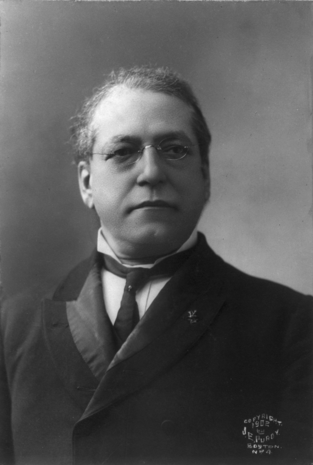 Samuel Gompers, American labor leader